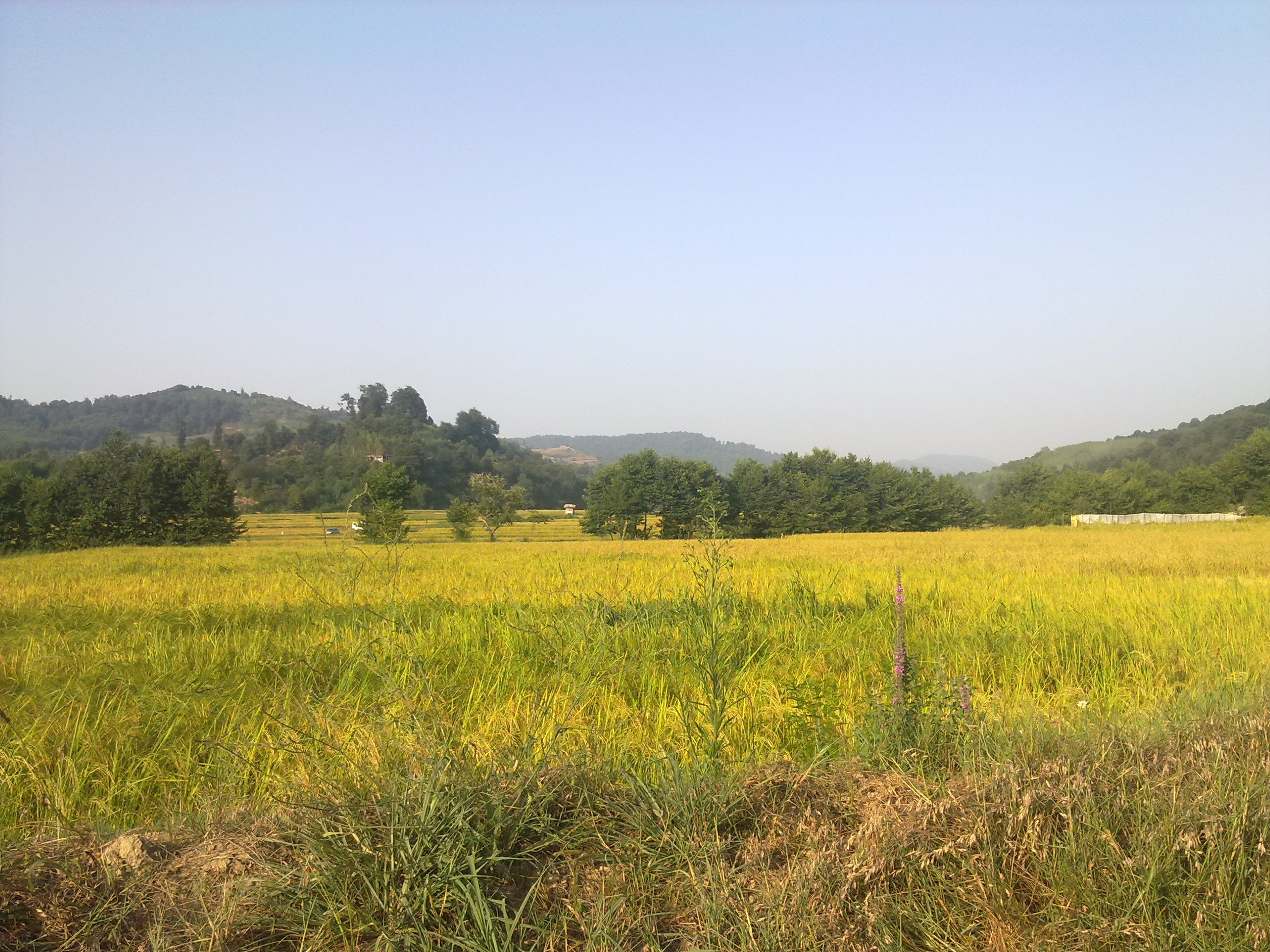 Ahoudasht-Sari-Mazandaran-Iran